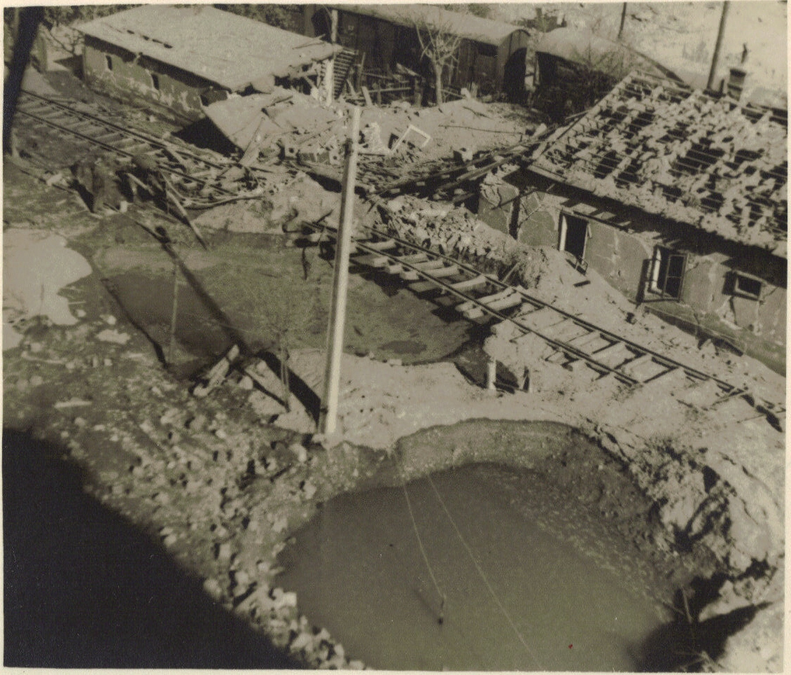 Allied bombing damage at the Apollo industrial plant in Bratislava, Czechoslovakia, September, 1944